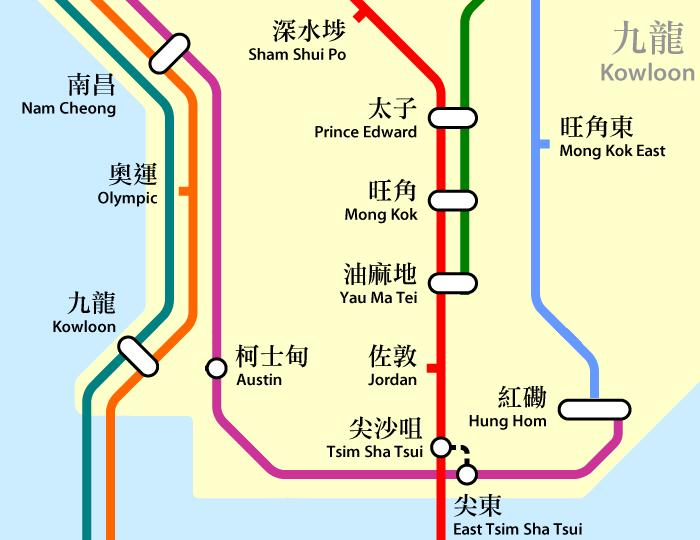 Kowloon Southern Link Route Map